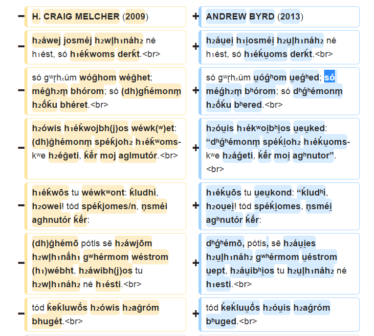 Side-by-side comparison of Schleicher's Fable as translated into Proto-Indo-European by H. Craig Melchert in 2009 and by Andrew Byrd in 2013.